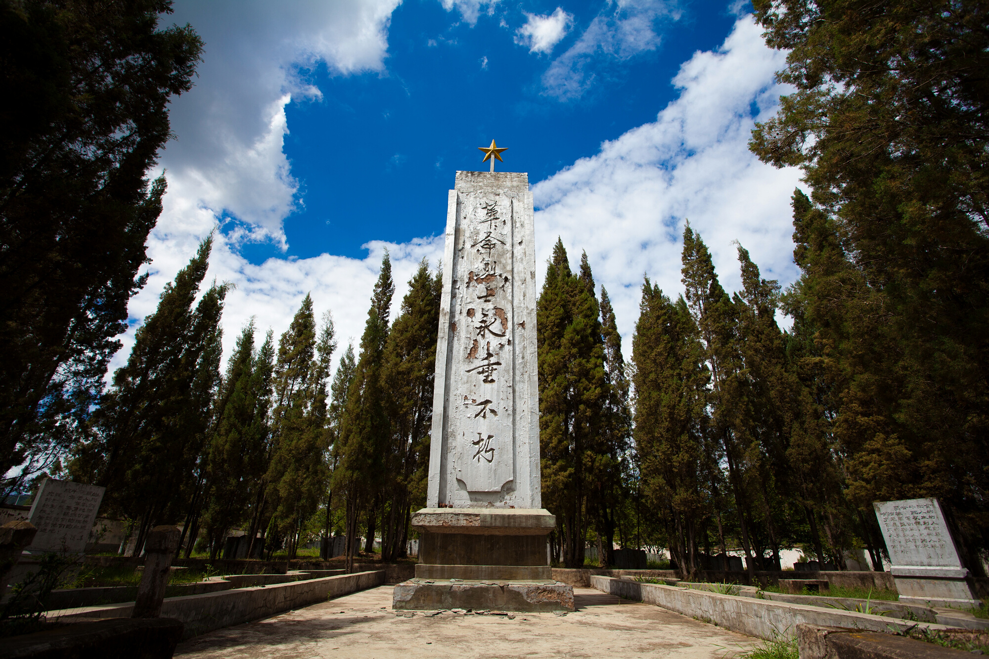 成昆铁路甸尾烈士陵园